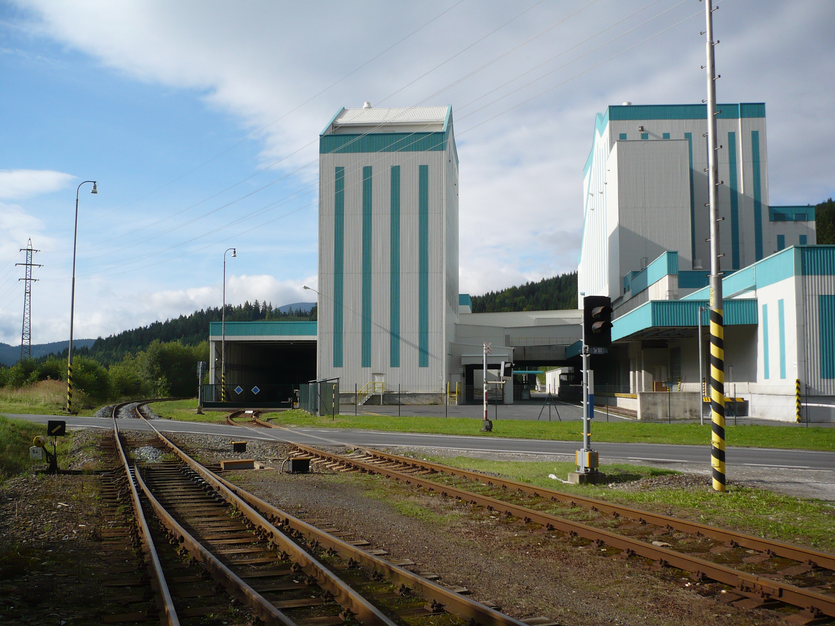 Industrial siding OMYA, connected to stop "Lipová-lázně jeskyně" (former name Am Gemärke / Na Pomezí).